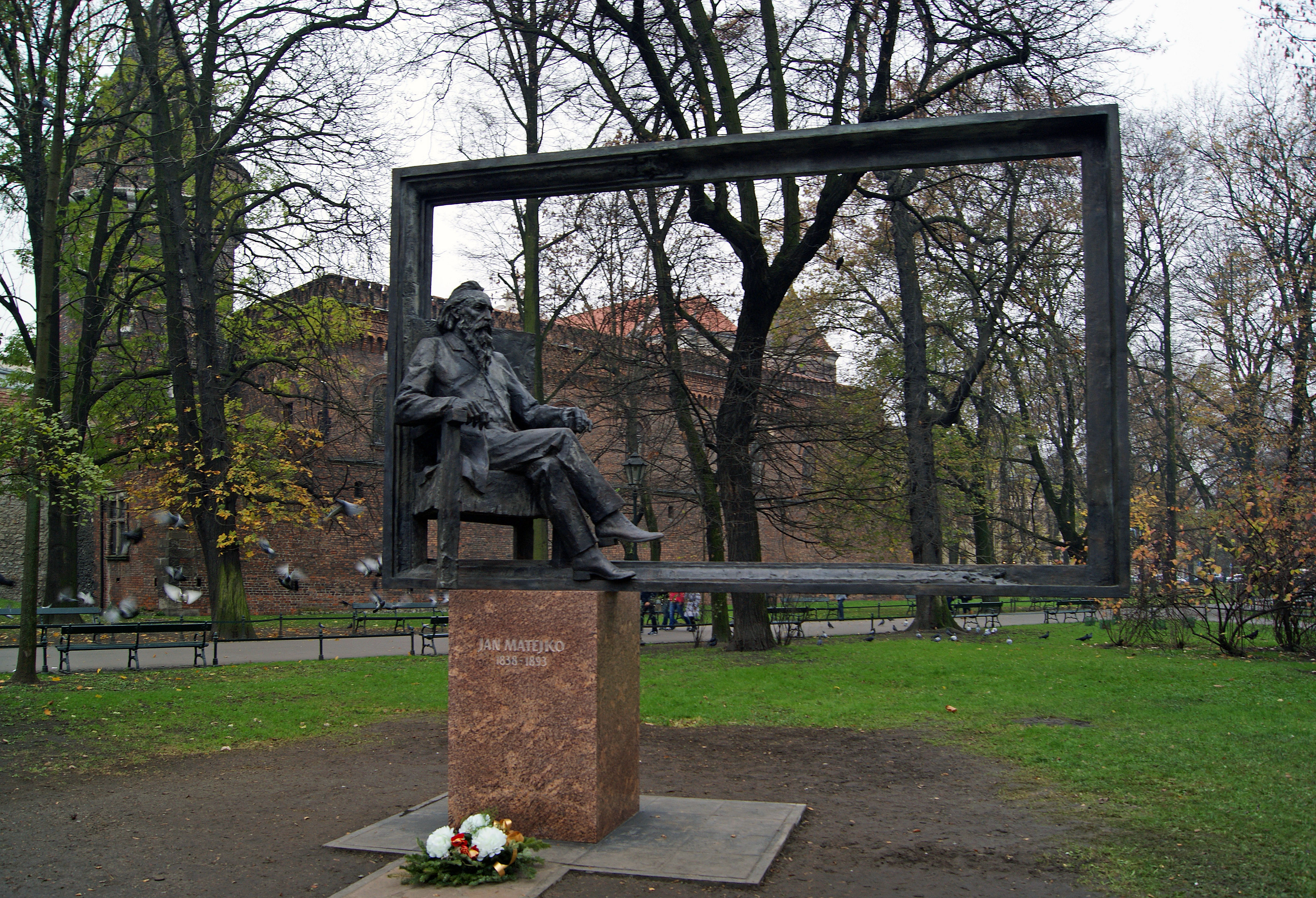 Monument of Jan Matejko-Polish painter (2013, designed by Jan Tutaj), Planty Park, Basztowa street, Old Town, Kraków, Poland